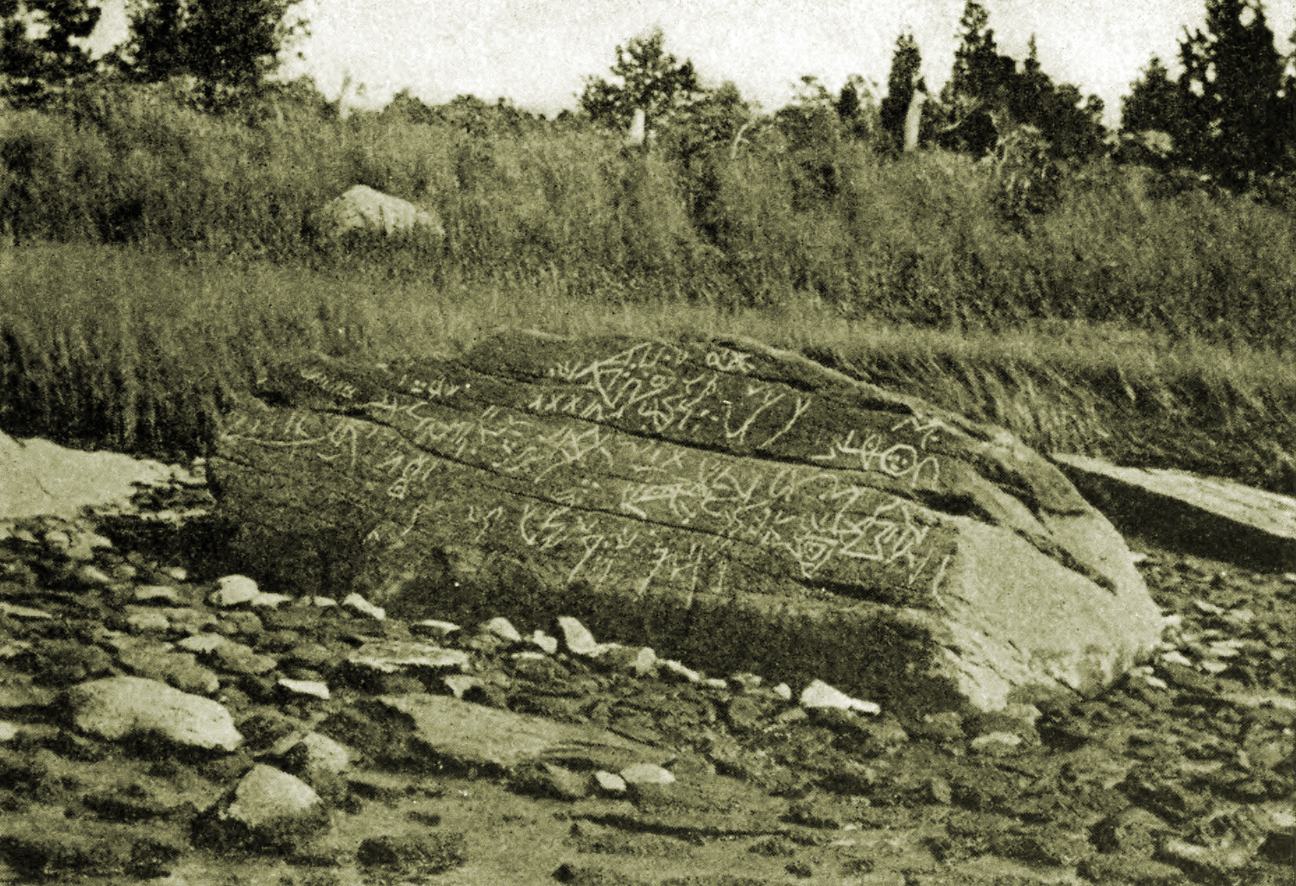 Photograph by Frank S. Davis, September 11. The author stated: " One of them is dated September 11, 1893; the other two were taken the winter following. I do not remember to have copied any previous photographs or drawings in making my markings on the rock. Going back to my school days, I can remember going to the rock and taking chalk and marking in the lines. There would be a number of us and we would all work at it and talk about what they were put there for. So you see I had seen the lines marked in a good many times. Then in after years I got a camera and got quite interested in taking pictures. One of the photographs I made for some one who was writing a book at that time, but cannot remember the name of the writer or that of the book. I expect that I marked quite a few lines on the rock which were never put on by the maker; also that there were quite a few marks put on by the maker which I did not mark in. The rock was so worn away that it was very hard to trace the markings, and not knowing what the figures were one had to use his own ideas in connecting the markings. You will notice the one taken in September is not as complete as the one taken later; possibly it is nearer right than the one taken the following winter which I tried to fill in more. The marks low down on the photo I do not think amount to much." source